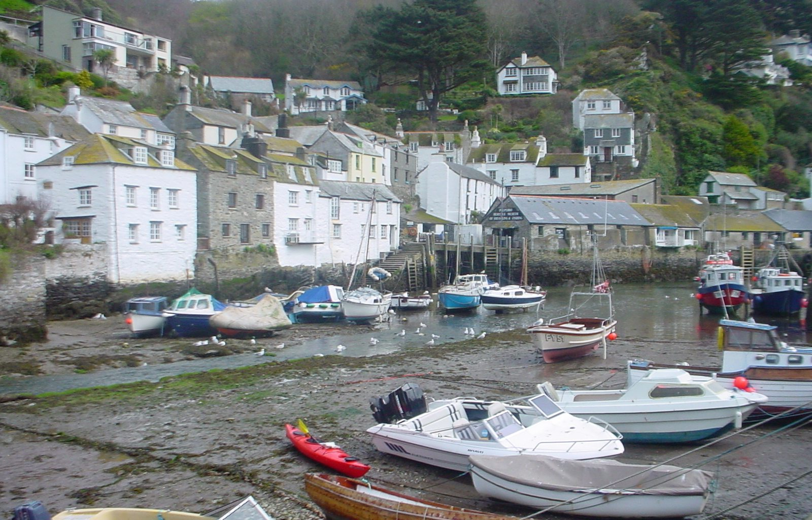 Polperro Harbour at low tide, April 2005.